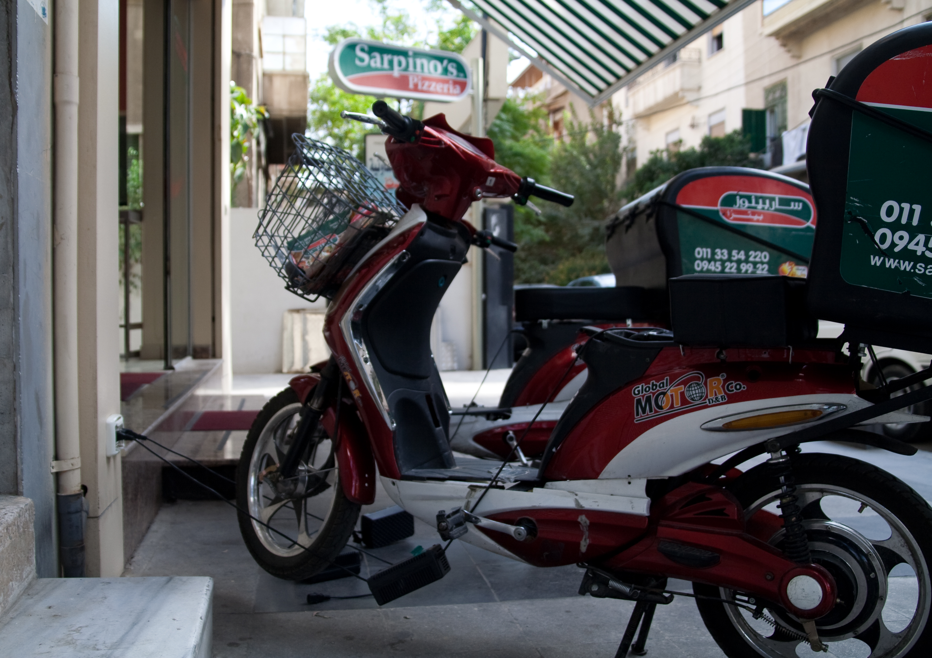 Electric bicycle in Damascus